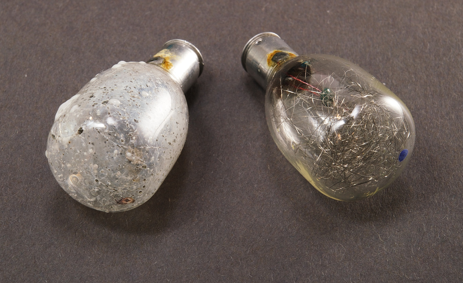 Used and new Philips Photoflux M3 flashbulbs